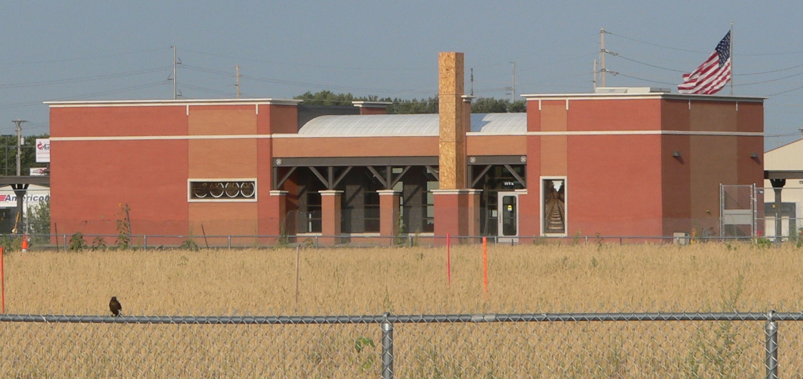 Amtrak station in Lincoln, Nebraska; seen from the northeast. The active railroad tracks are behind (west of) the building.